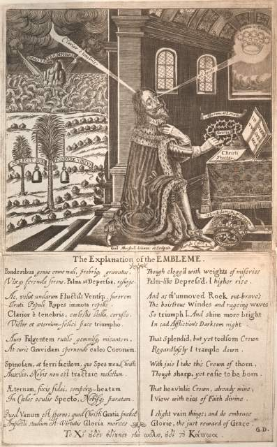 The Eikon Basilike's frontispiece by William Marshall, with explanations.